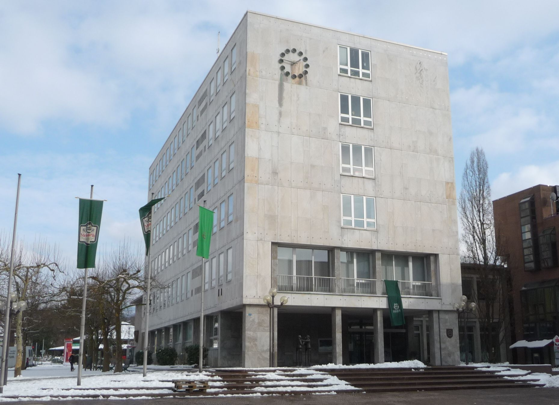 Gaggenau, Germany